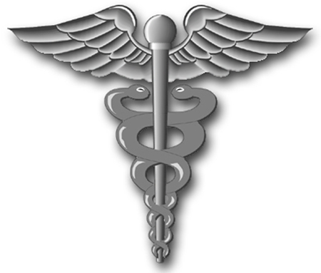 US Navy Hospital Corpsman (HM). A caduceus.